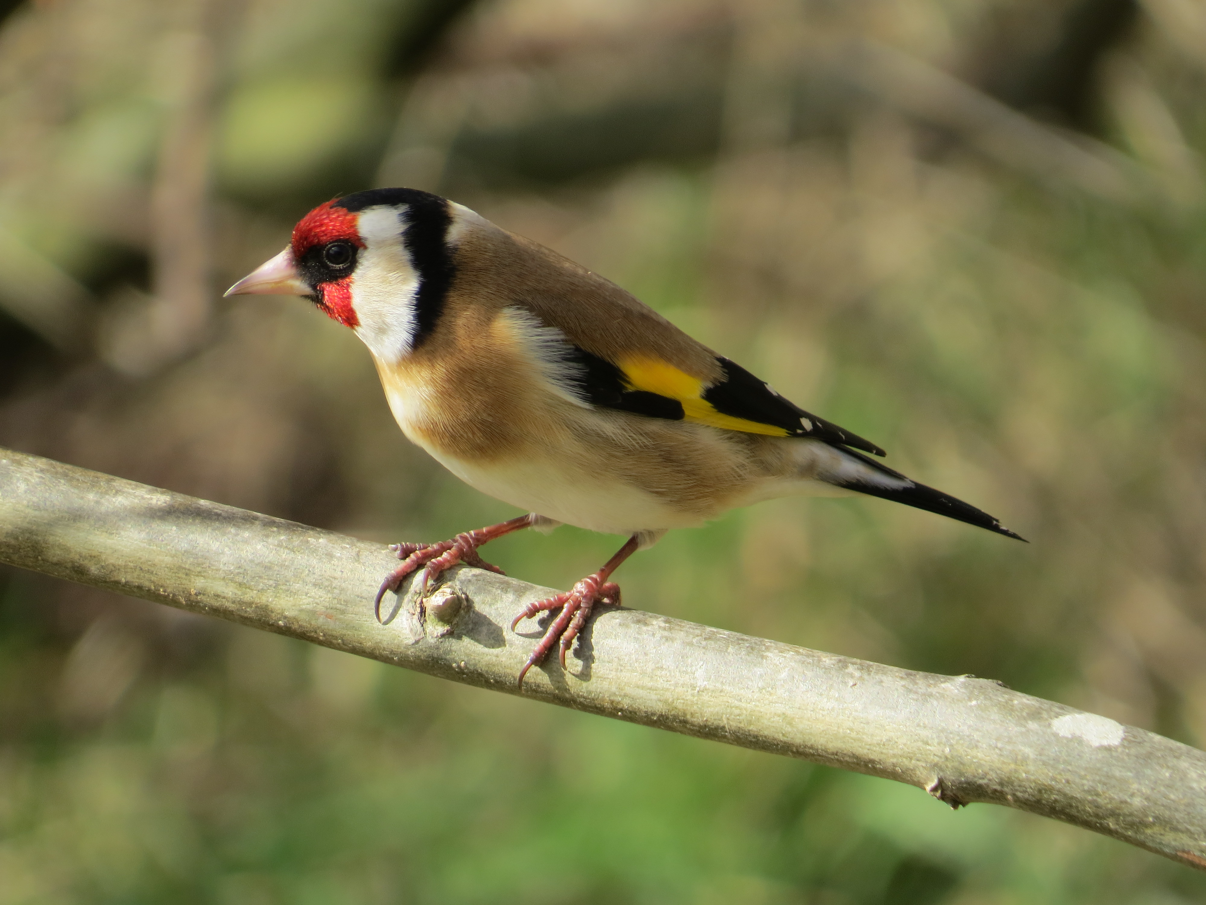 European Goldfinch Carduelis carduelis, male, East Chevington, Northumberland, UK